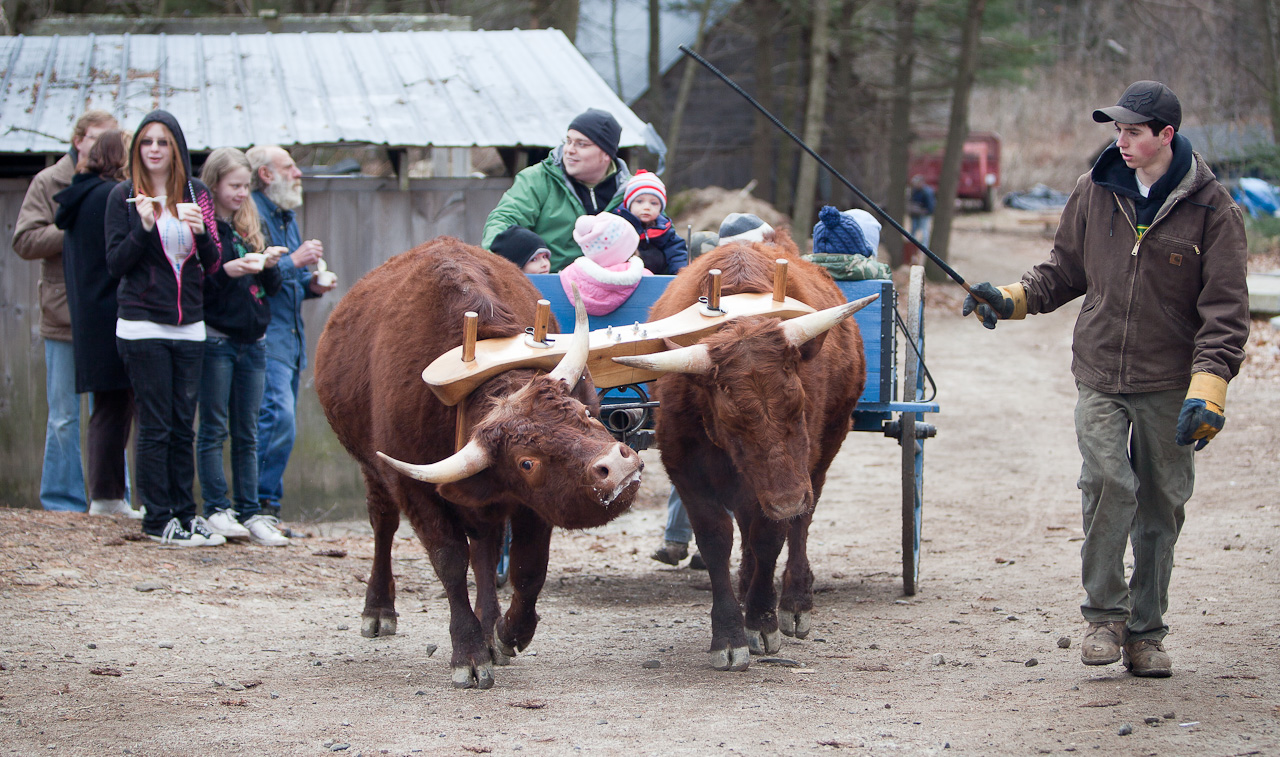 Oxen pulling a cart at Merrifield Farm, Gorham, Maine.